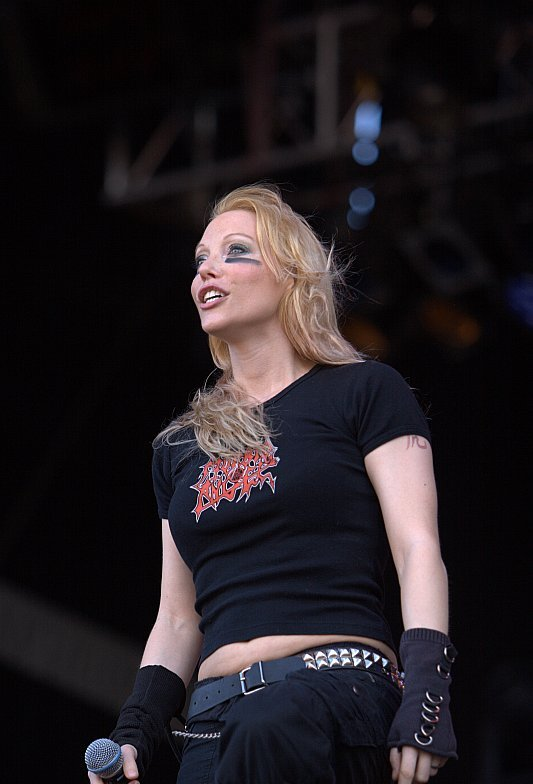 Angela Gossow of Arch Enemy performing at Wacken Open Air 2006.